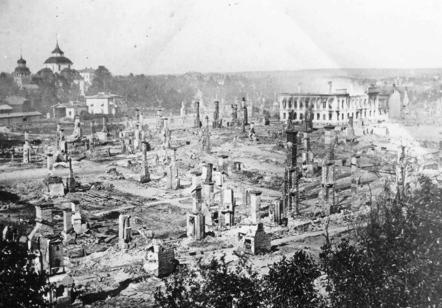 Söderhamn after the city fire 1876